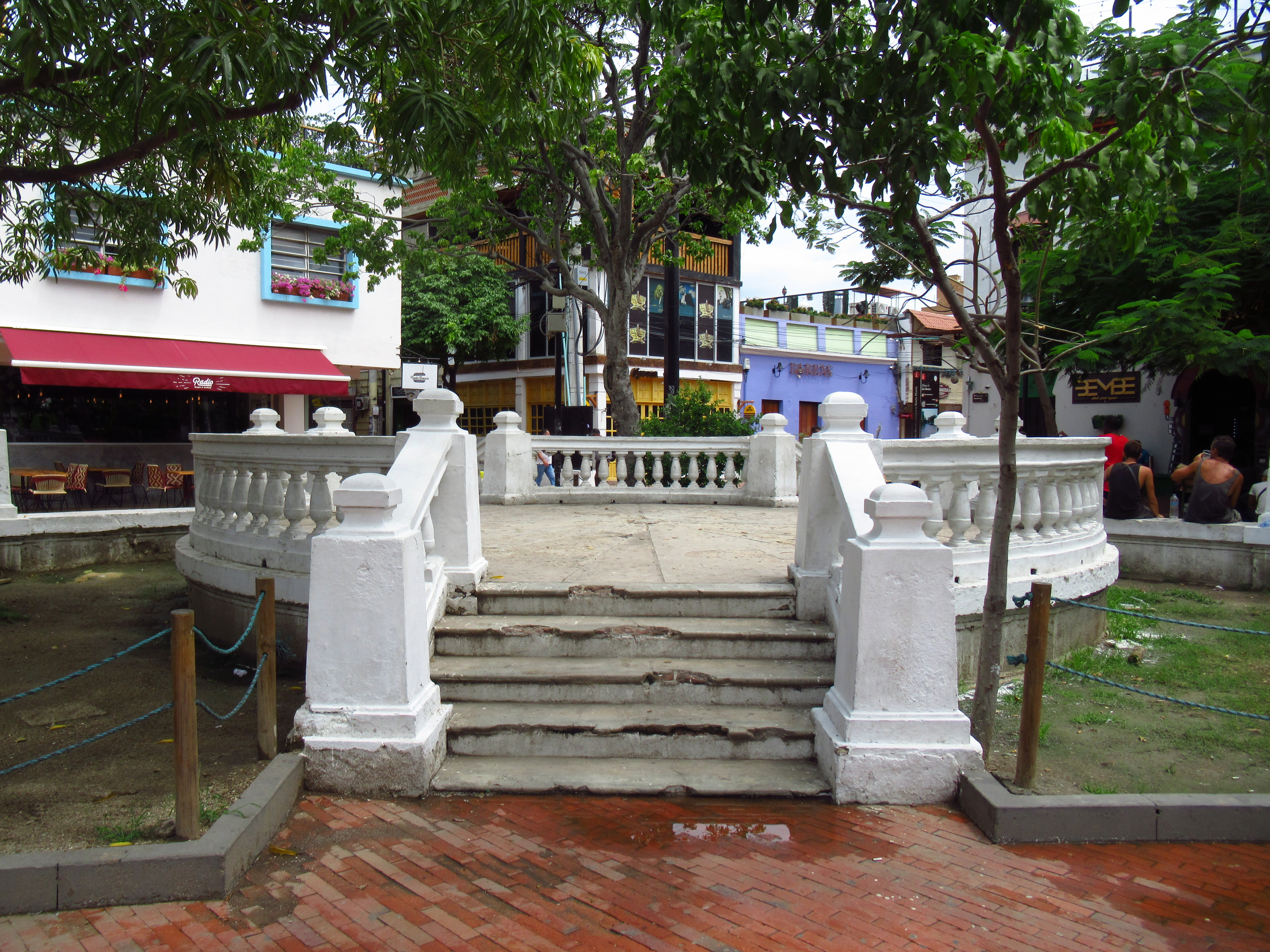 Santa Marta